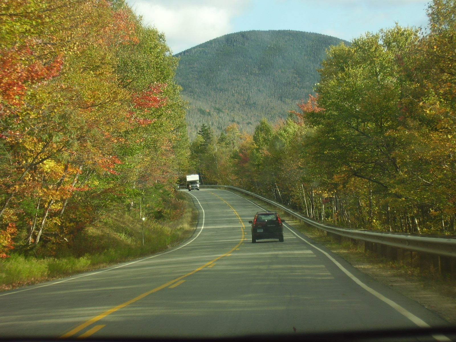 View along NH Route 112 (Fall 2008)